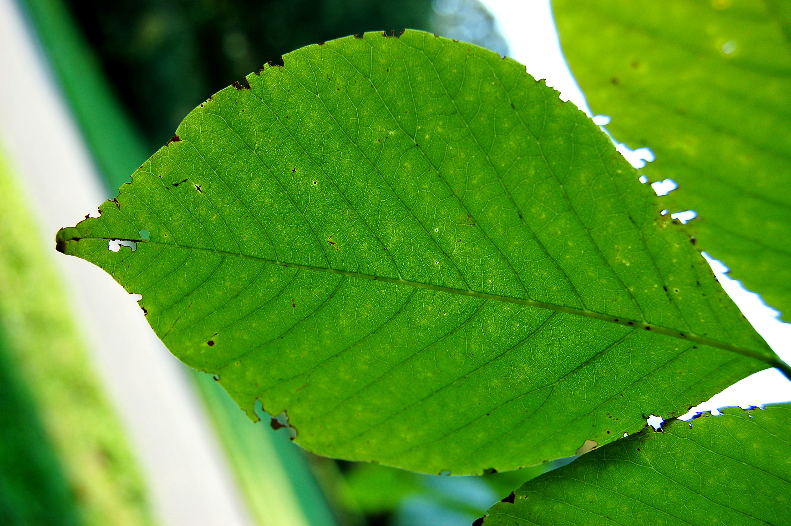 A photograph of the bottom of a leaf of the Yellowwood Tree (Cladrastis kentukea en ). Photo taken at the Tyler Arboretum where it was identified.